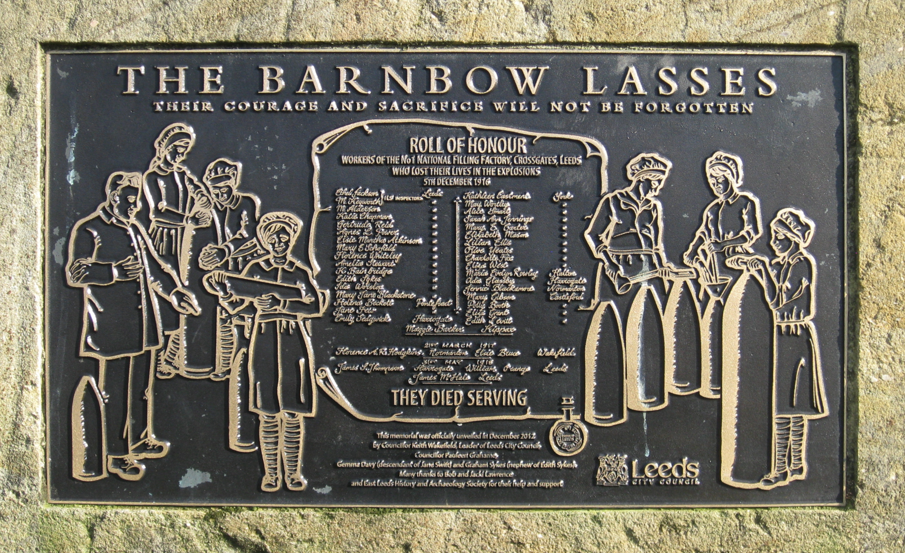 Memorial to the Barnbow Lasses, Manston Park, Cross Gates, Leeds. Closeup of the panel.